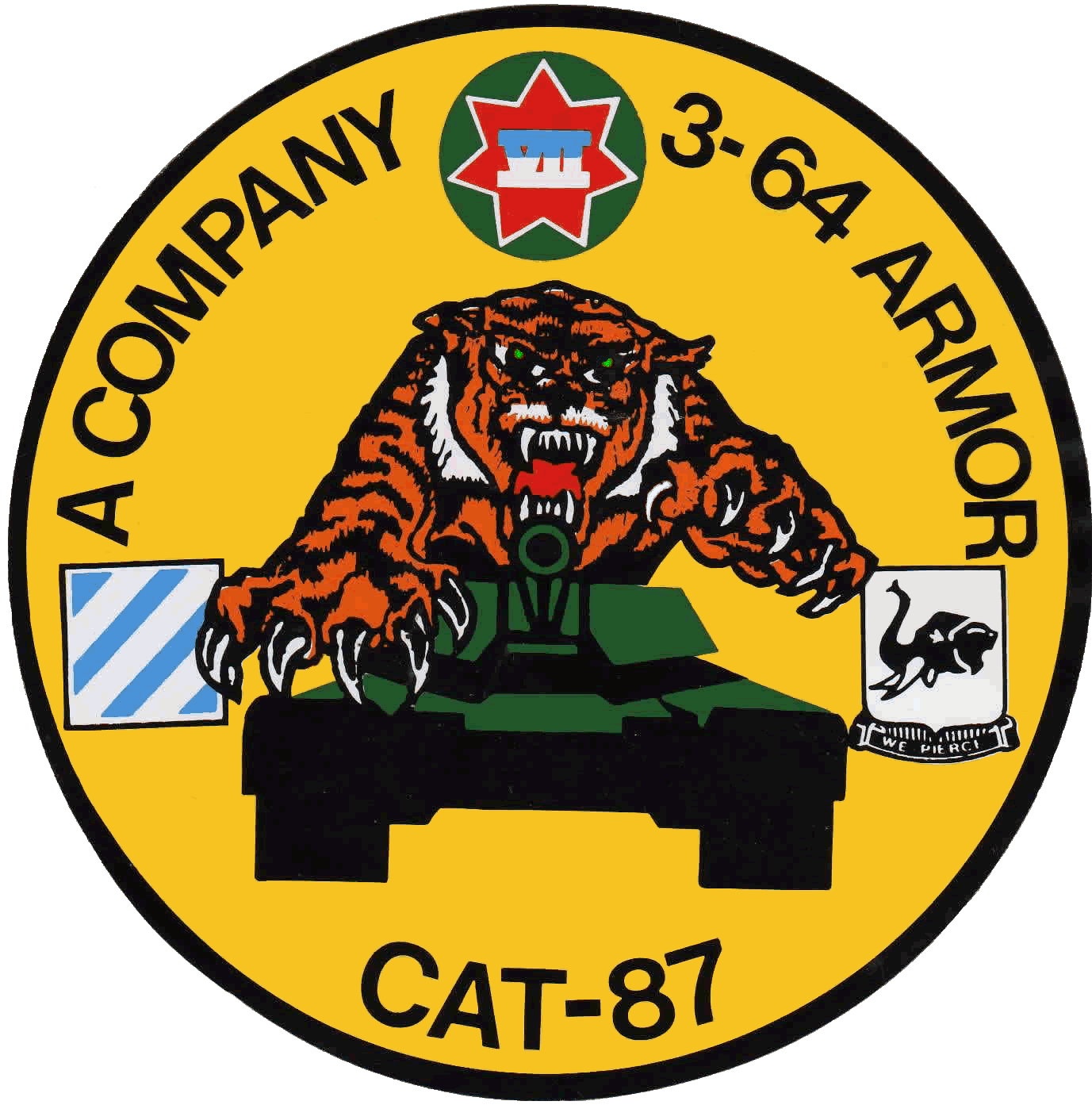 3-64 Armor CAT 1987 Patch